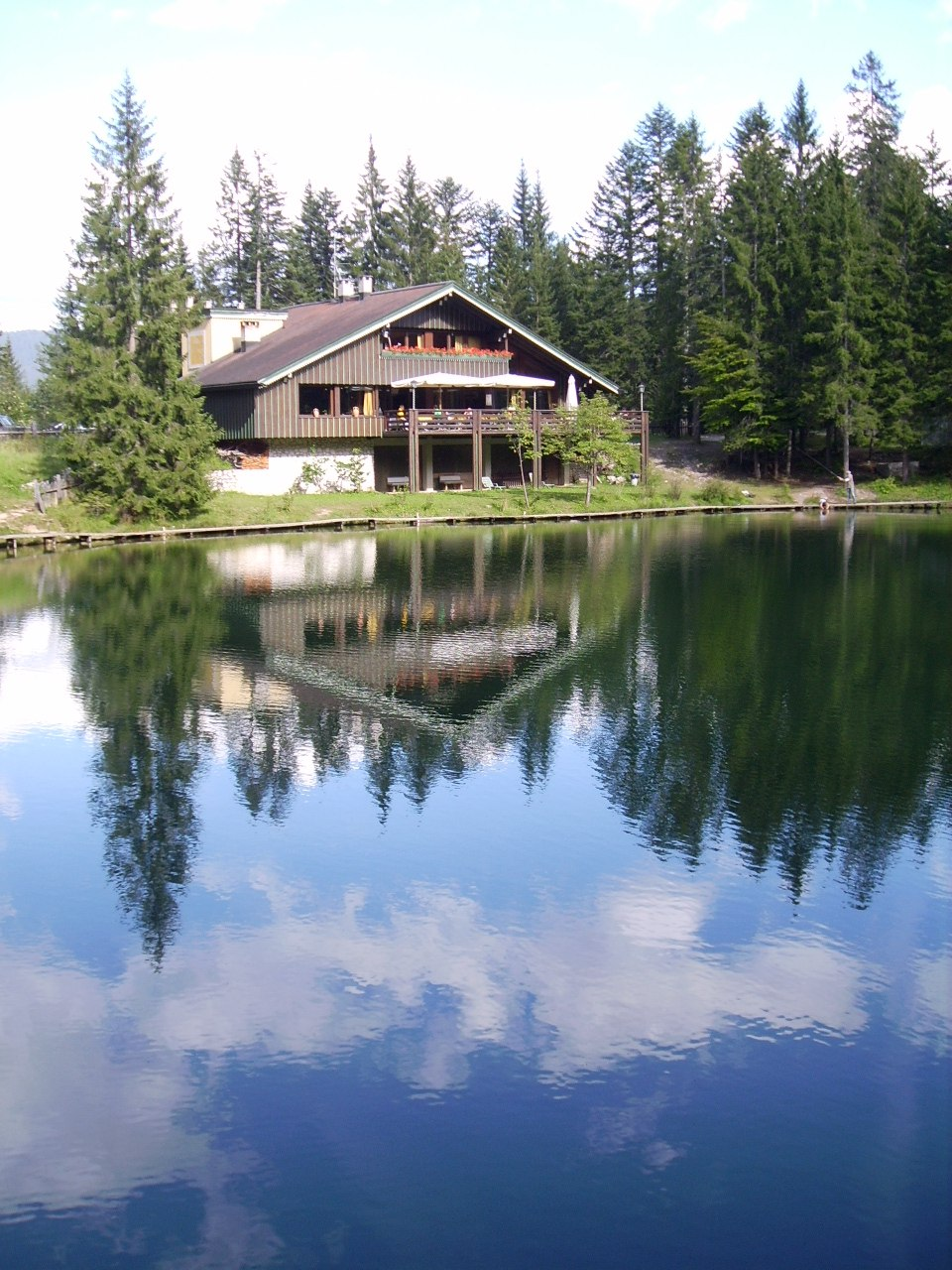 Lago di Sant'Anna (Saint Anne's lake) in Comelico Superiore, Dolomites, Italy